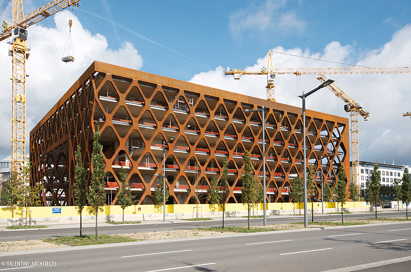 Administrative and financial building for KPMG, Luxembourg Kirchberg, Luxembourg